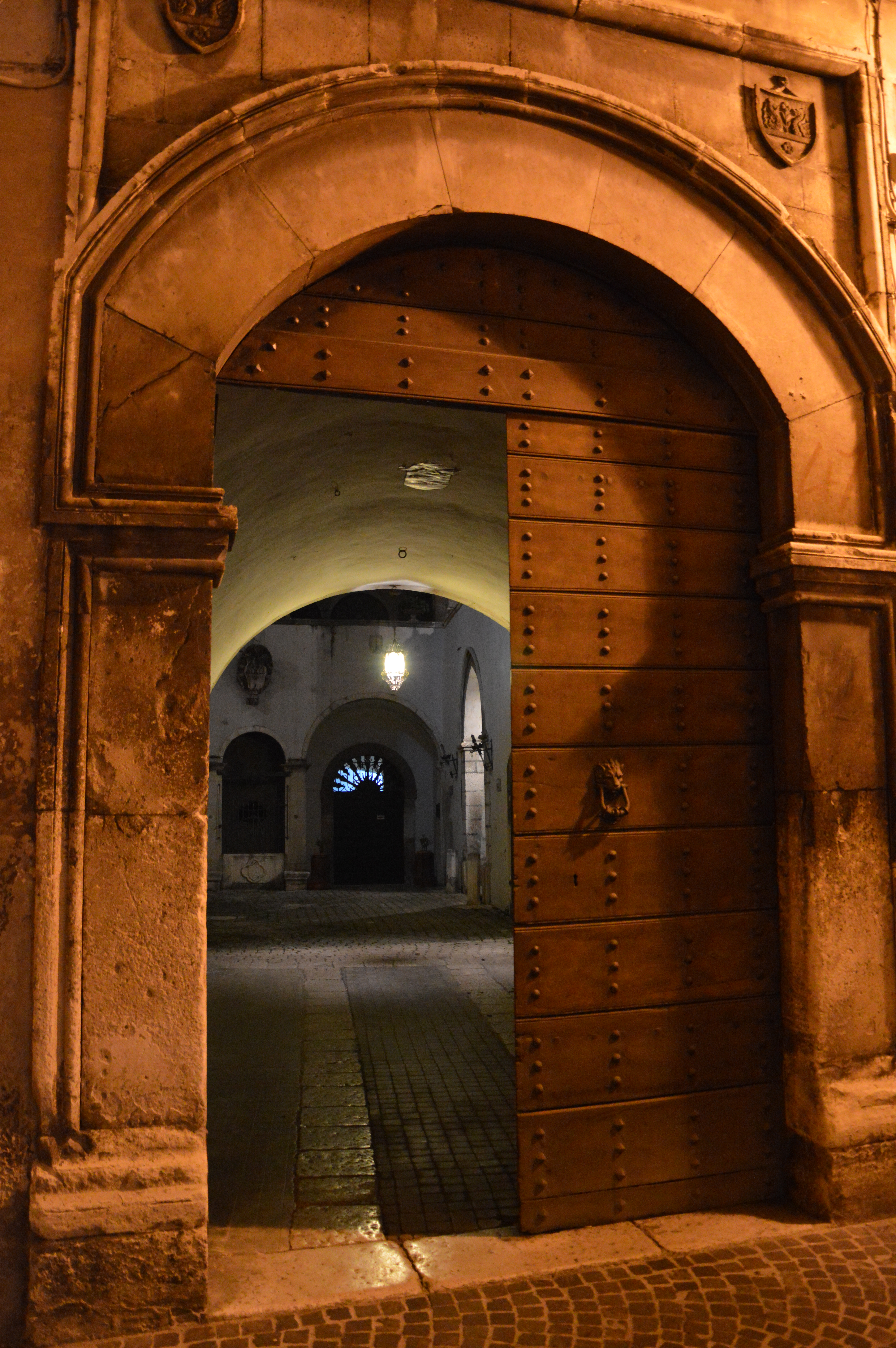 mediaval palace